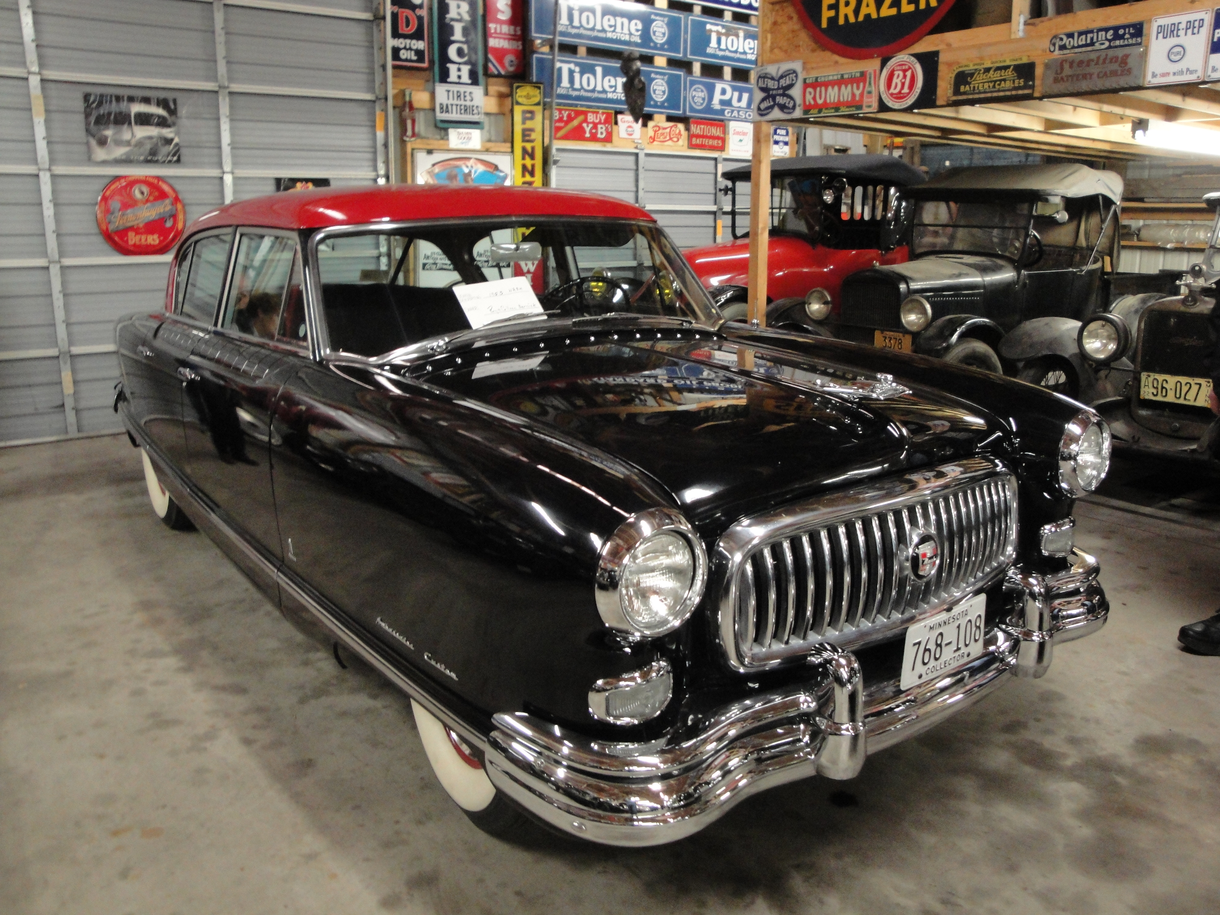 1953 Nash Ambassador Custom at the Willmar Car Club Car Buffs' Breakfast November 2011